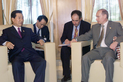 BANDAR SERI BEGAWAN, BRUNEI. President Putin with Kim Dae-jung, President of the Republic of South Korea.